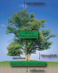 Interception types